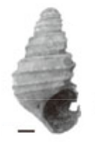 Black-ang white photo of an apertural view of the shell of Margarya monodi Dautzenberg & H. Fischer, 1905 (synonym: Margarya yini) (holotype, IOZ), Lake Dianchi. Scale bar is 1 cm.